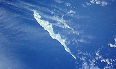 Medny Island, Komandorski Islands, Russia